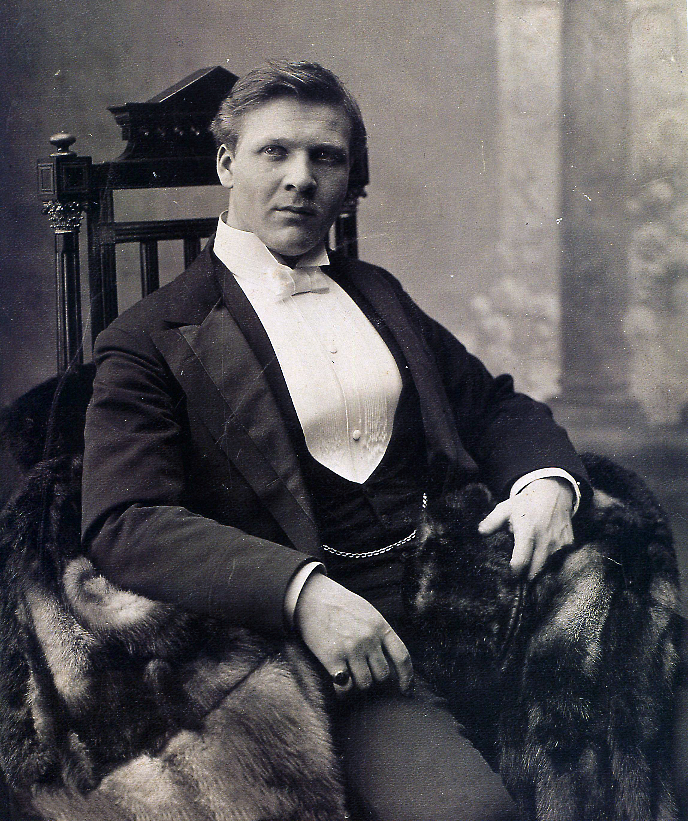 Feodor Chaliapin